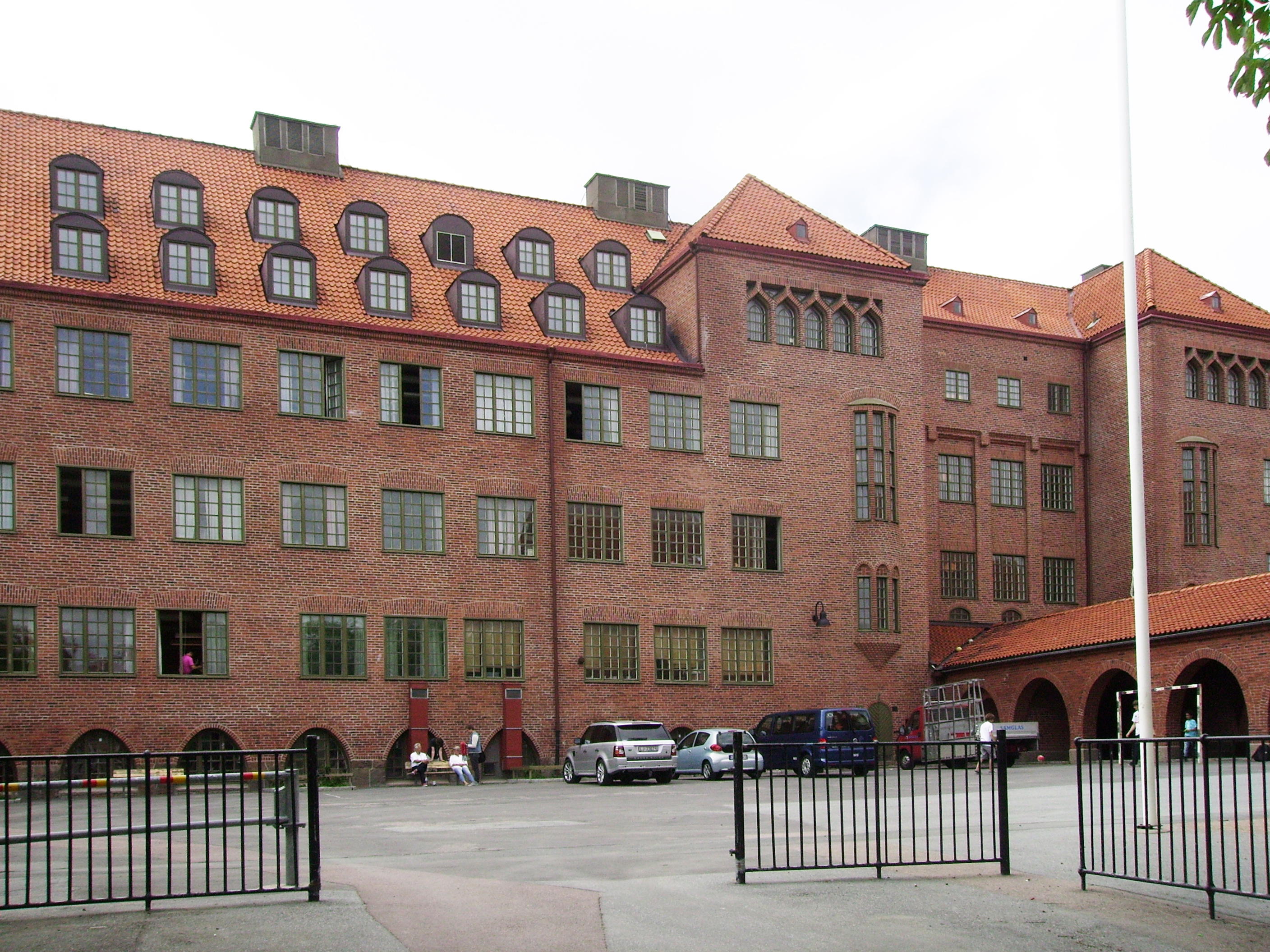 Picture of a school in Gothenburg, Nordhemskolan